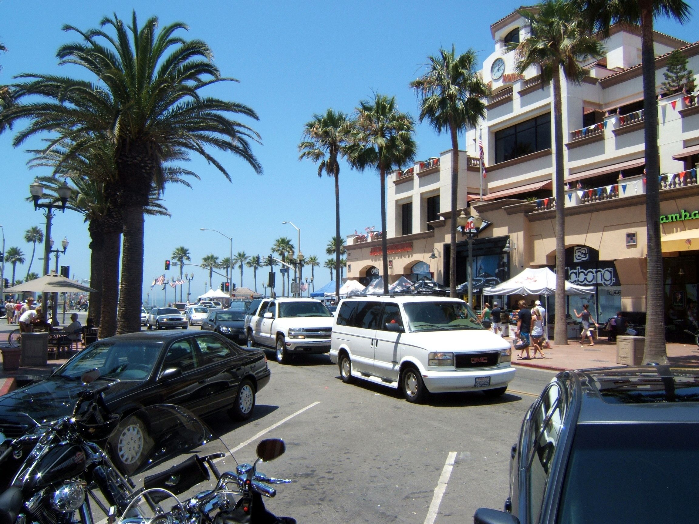 street leading to the pier in Huntington Beach, California, USA